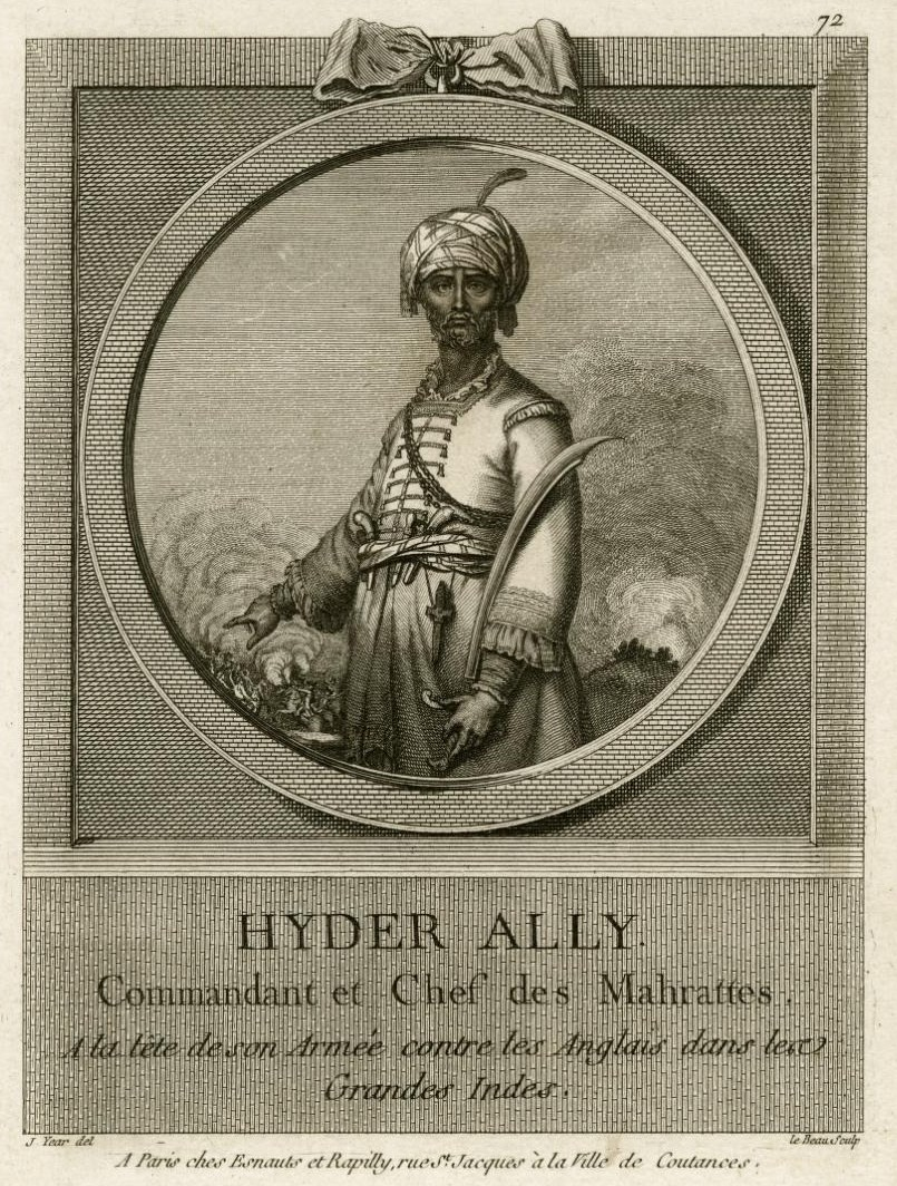 "Haidar Ali, commander of the Marathas". French painting from 1762, published at the end of the Seven Years War. The Nawab of Mysore fought against the British for many years. In 1782 he received the help of the French squadron of Suffren, but he died before the end of the war